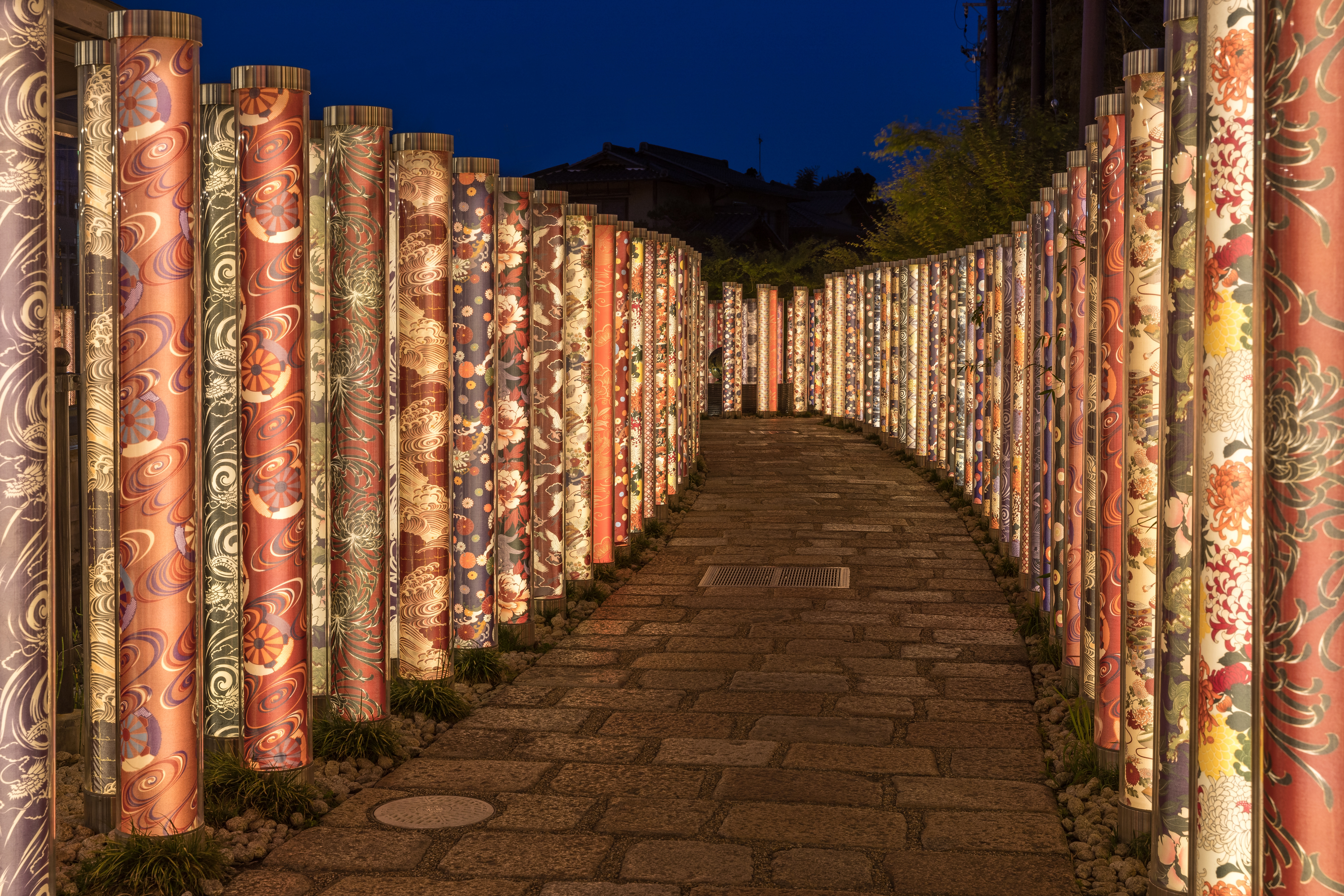 The "Kimono Forest" at night, a collection of 600 kimono gowns wrapped around poles with LED lighting inside, Arashiyama Station (Keifuku), Arashiyama, Kyoto, Japan, decoration project developed by the interior designer Yasumichi Morita. The "Kimono Forest" consists of pieces of textile dyed in the Kyo-yuzen style, covered with acrylic fiber and shaped like 2-meter tall cylindrical poles installed around the station and the railway tracks.